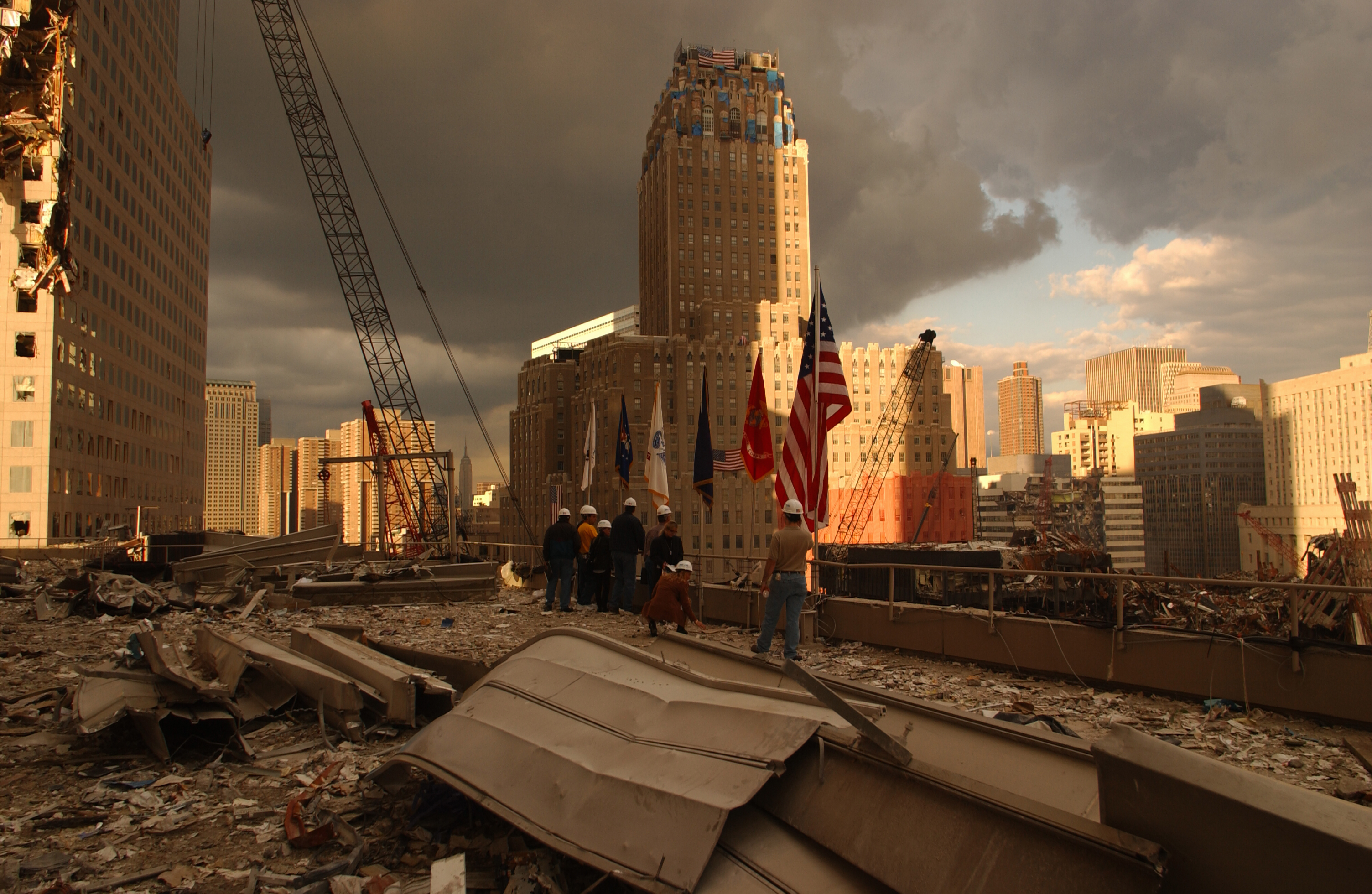 New York, NY, September 28, 2001 -- Debris on surrounding roofs at the site of the World Trade Center. Photo by Andrea Booher/ FEMA News Photo